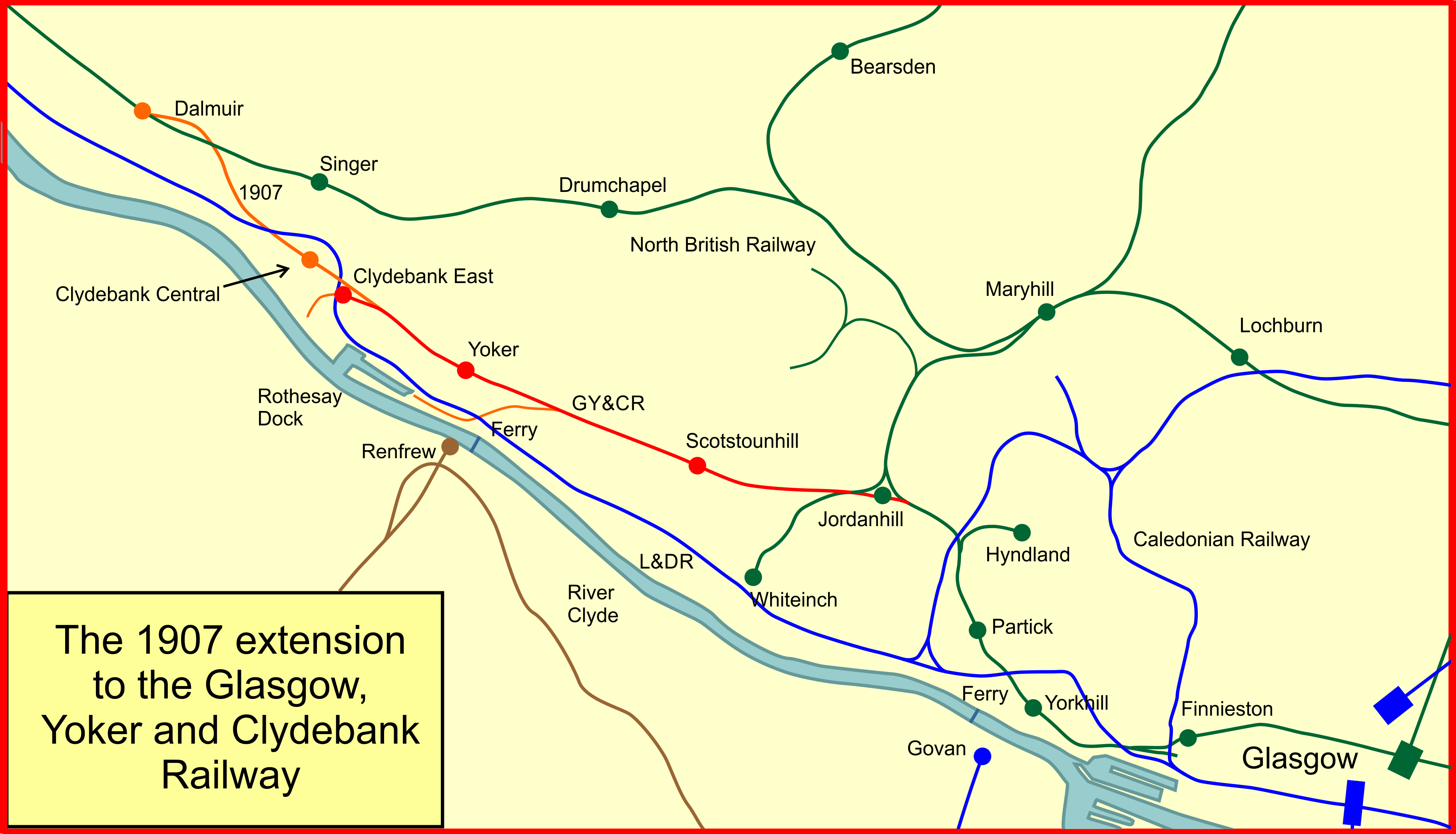 System map of the Glasgow, Yoker and Clydebank Railway, Scotland, in 1907